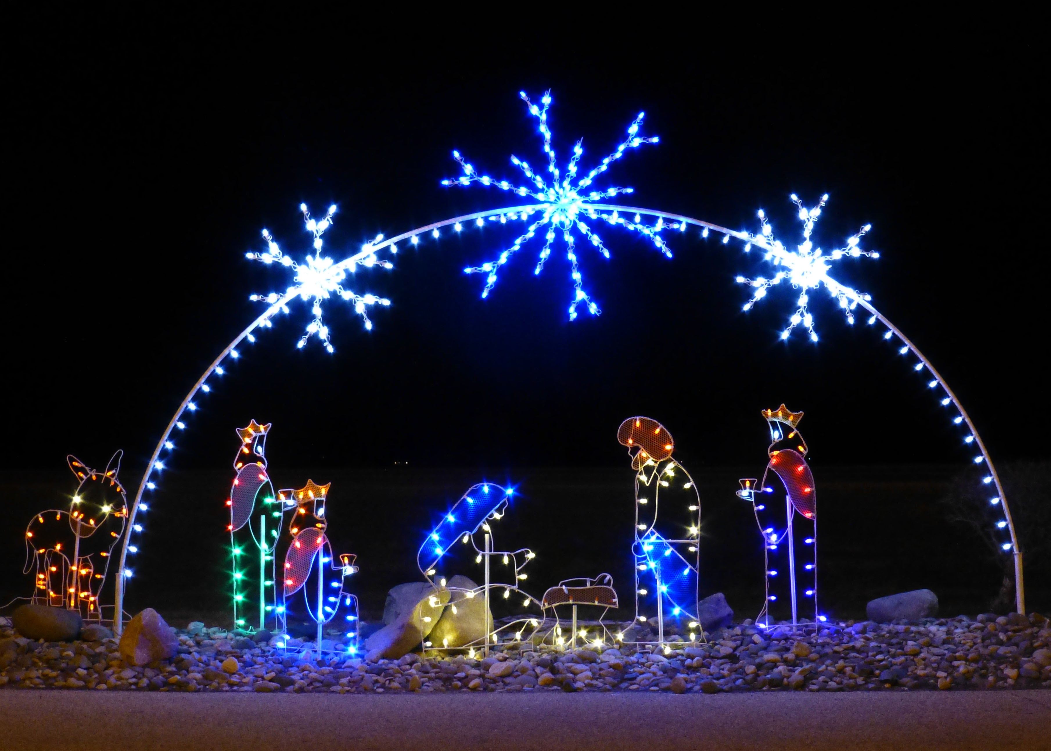 == Depiction of the Nativity using Christmas lights. Removal of connective wires and piece of wood obscuring the creche using photo editing software.